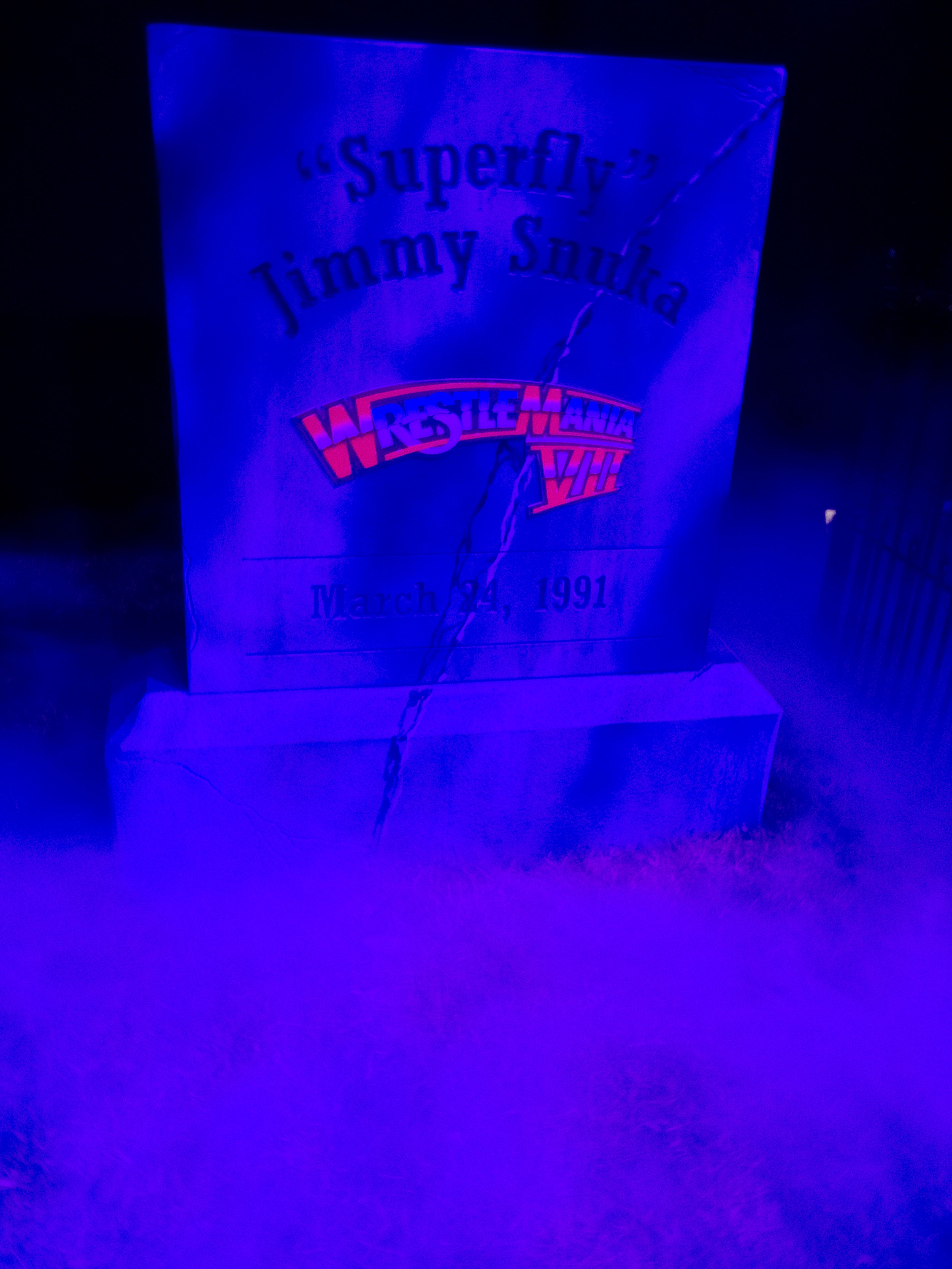 The Undertaker's Graveyard @ Axxess